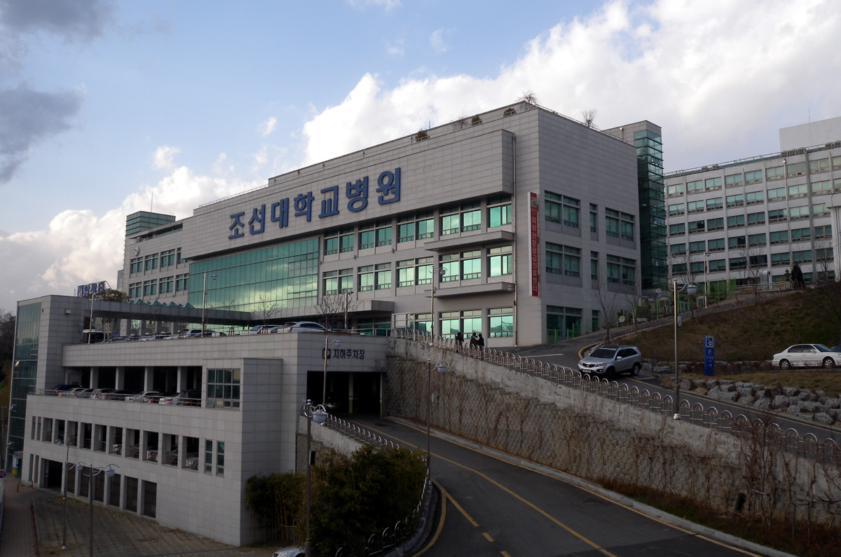 Chosun University Hospital